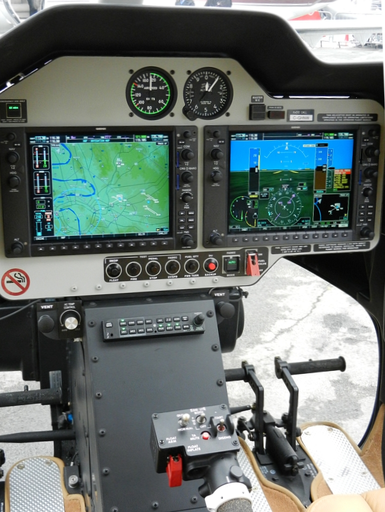 Cockpit of the Bell 407GX with the Garmin G1000HTM flight deck in 2011.